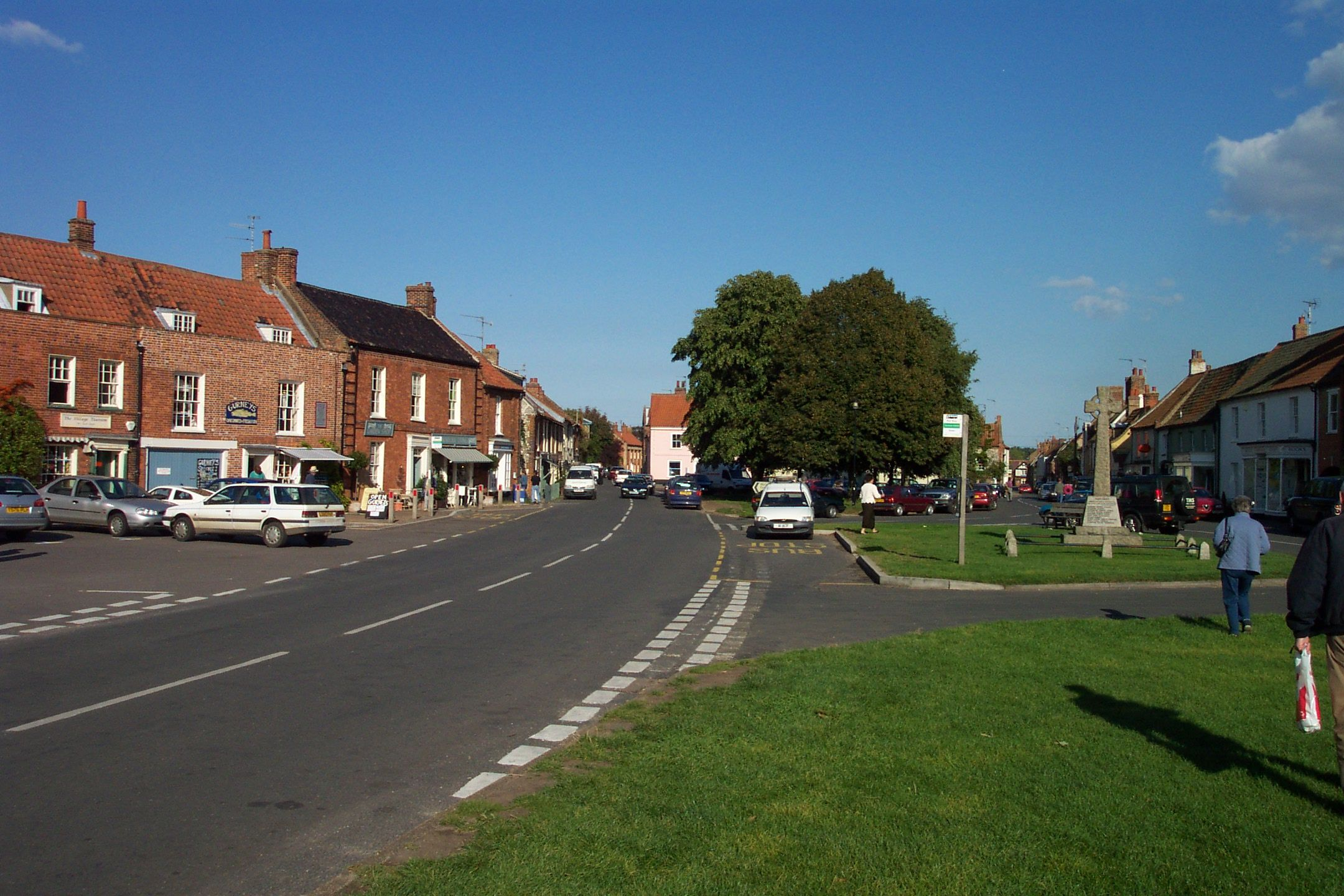 The village green in Burnham Market. For more information see the Wikipedia article Burnham Market.